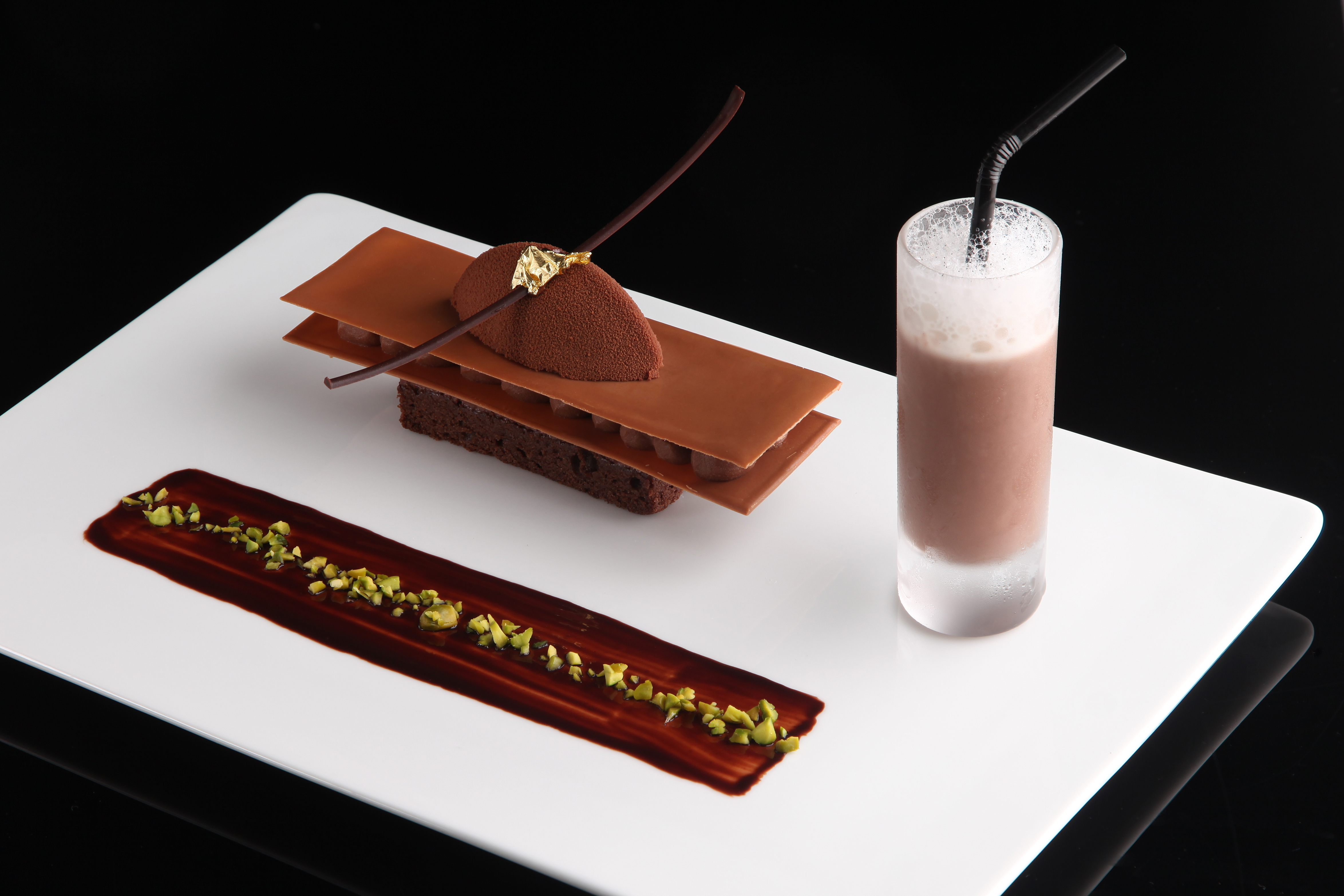 One of the courses in Vertig'O, Michelin star restaurant in Geneva, Switzerland